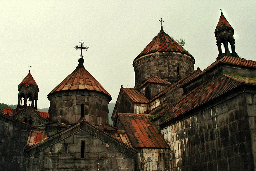 Haghpat Mon., Armenia